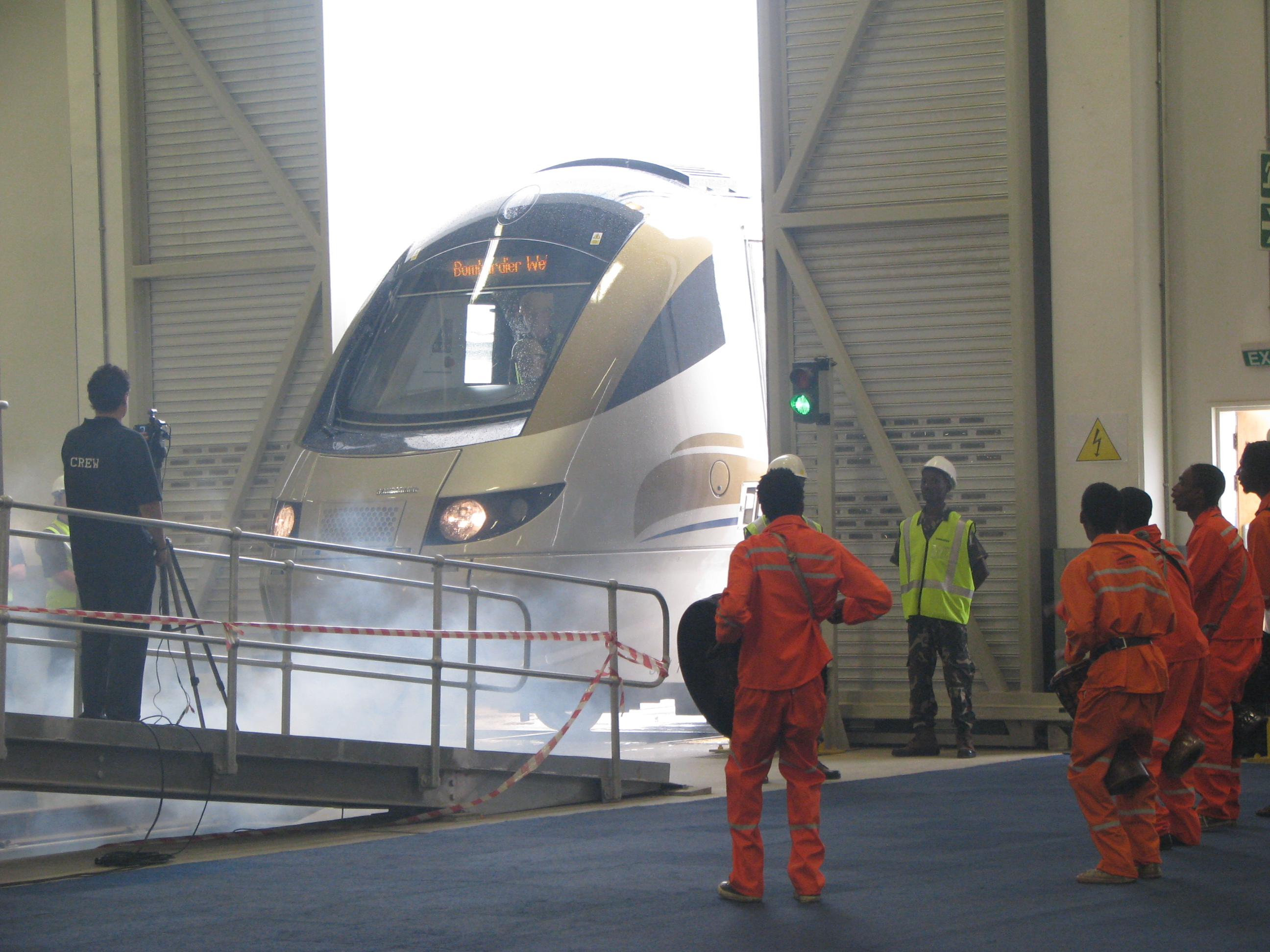 The Gautrain first public appearance